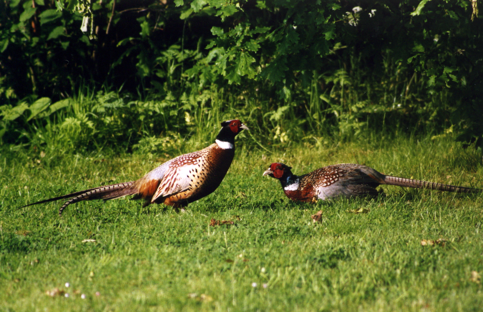 Two male pheasants disputing territory